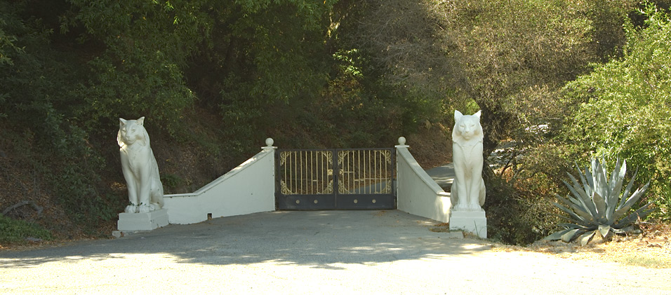 "The Cats" entry to the former estate of Charles Erskine Scott Wood in Los Gatos. Created by sculpter Robert Paine. Located on the old Santa Cruz Highway (California Highway 17).